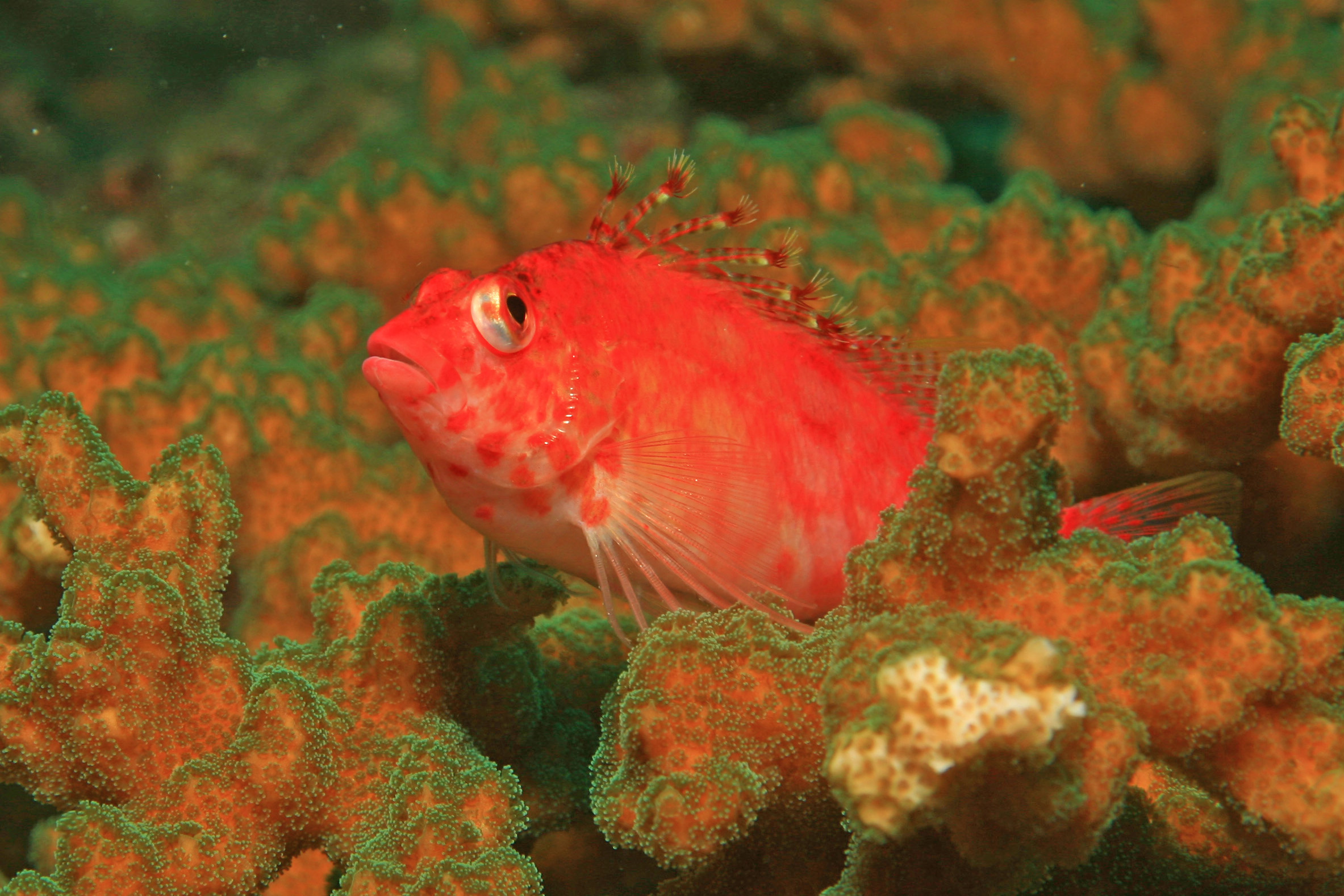 Cirrhitichthys oxycephalus